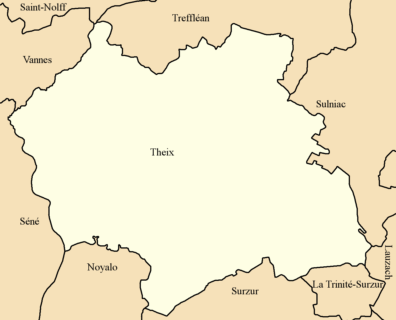 Communes close to Theix, the french commune in Brittany